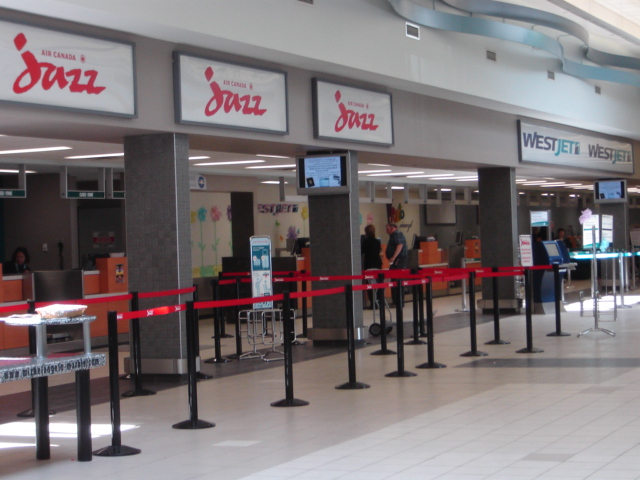 Saskatoon John G. Diefenbaker International Airport